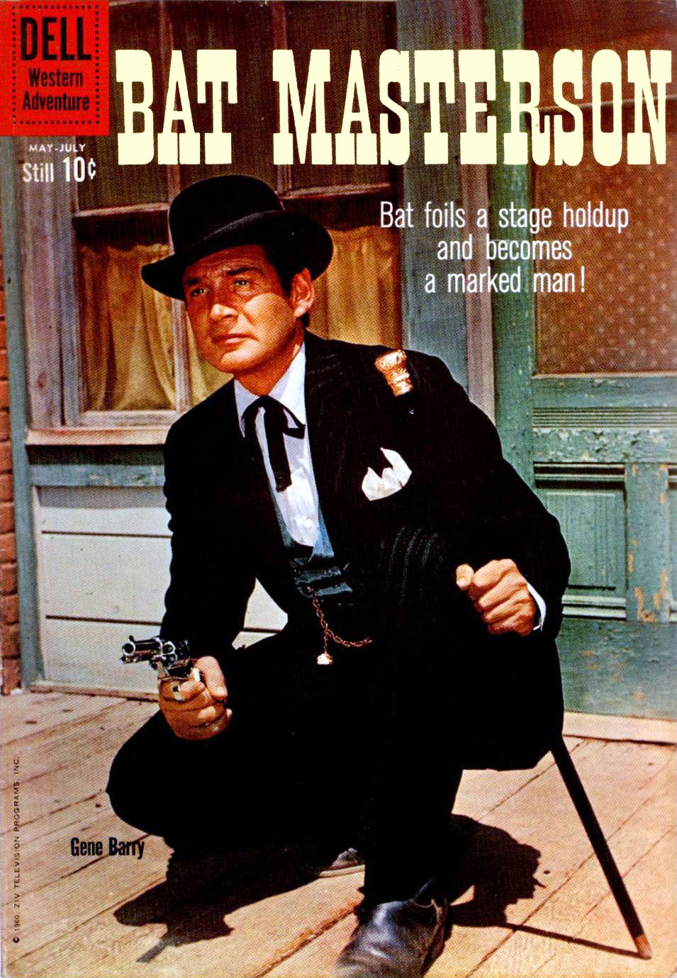 Front cover of Bat Masterson number 3 (Dell Publishing, June, 1960), featuring a publicity still of Gene Barry. In common with many of Dell's titles of the time, Bat Masterson was licensed from a popular TV program of the same name, running for a total of eight issues.